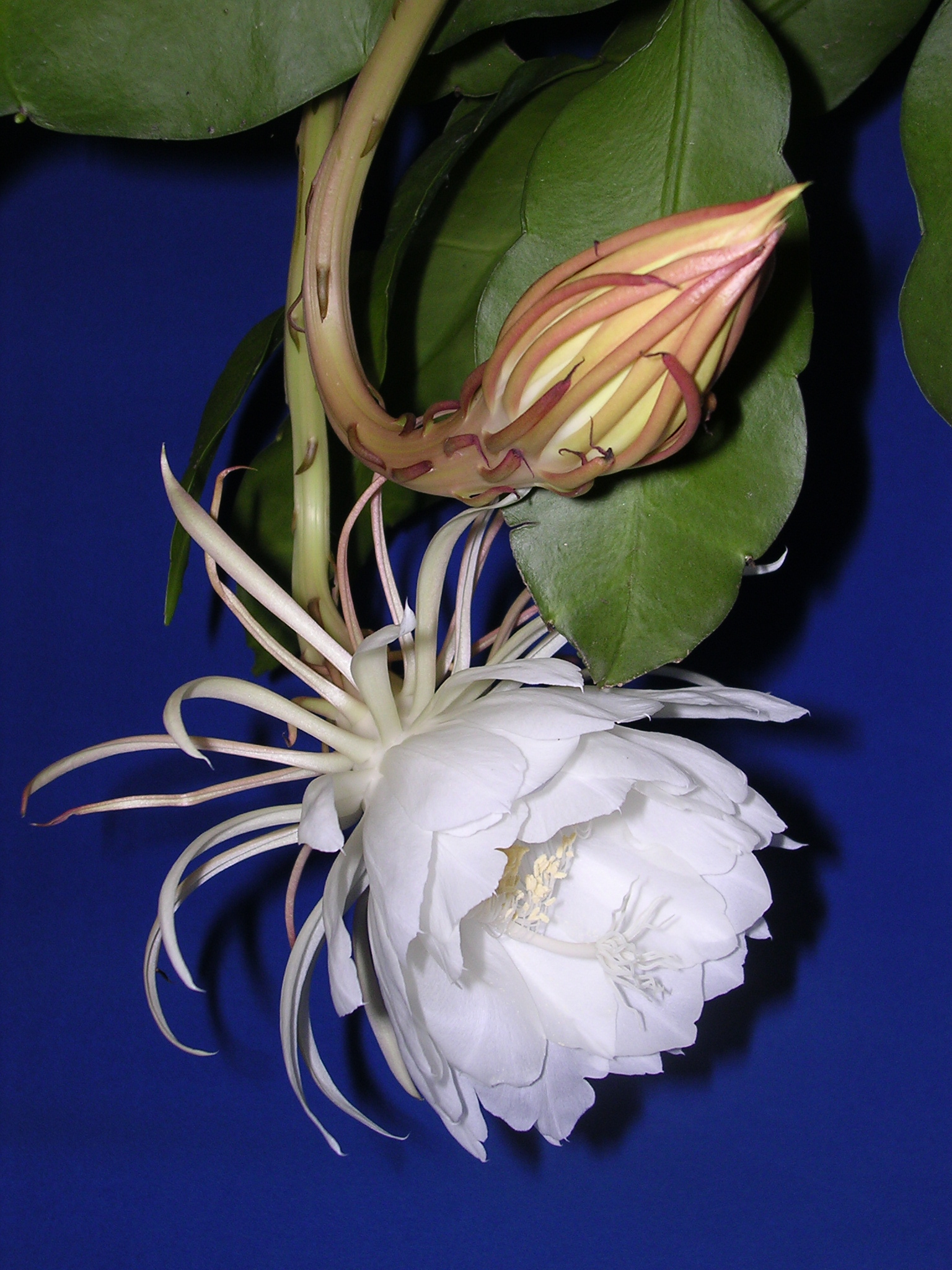 Flower of Epiphyllum oxypetalum